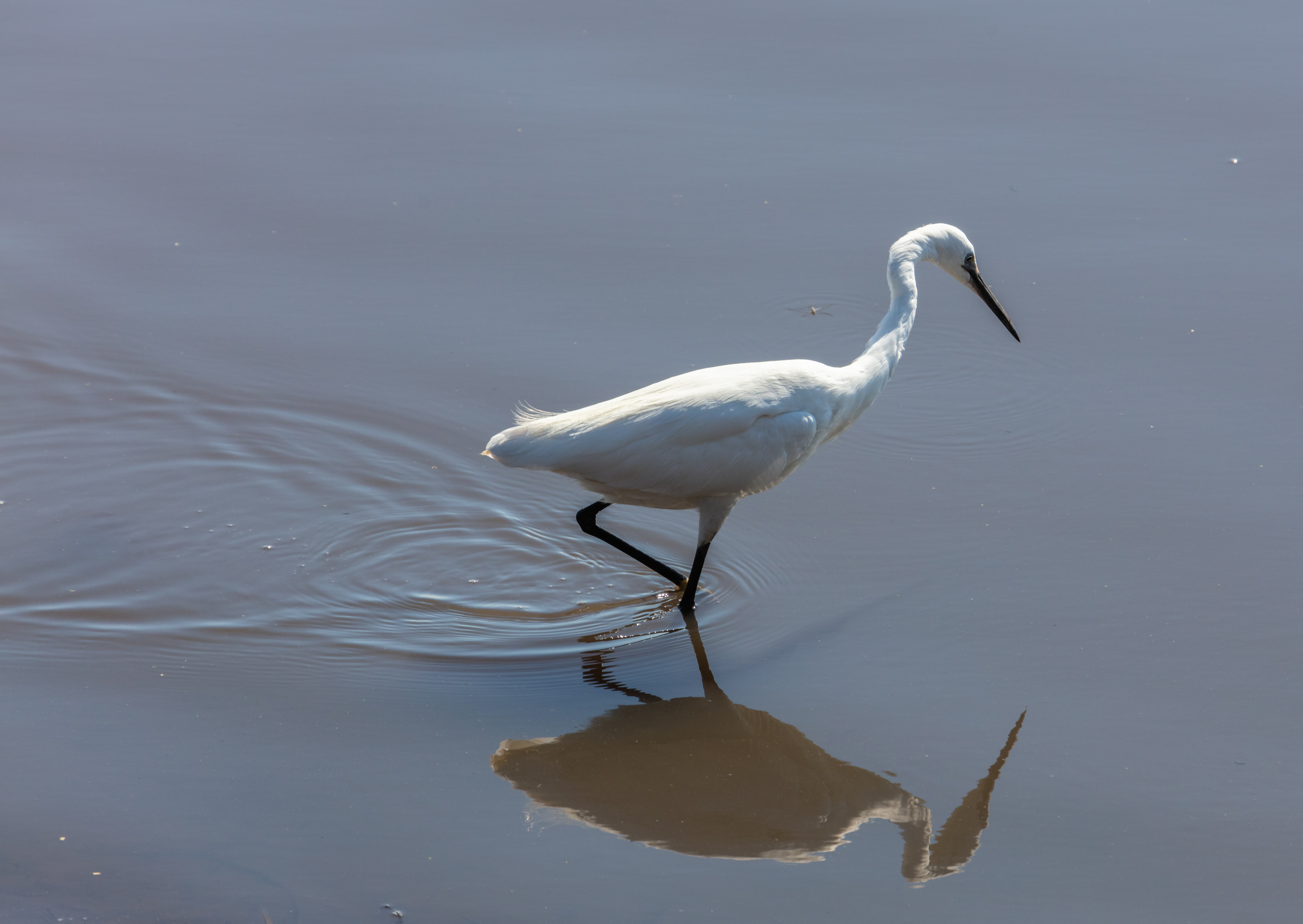 Little egret (Egretta garzetta), Chobe National Park, Botsuana